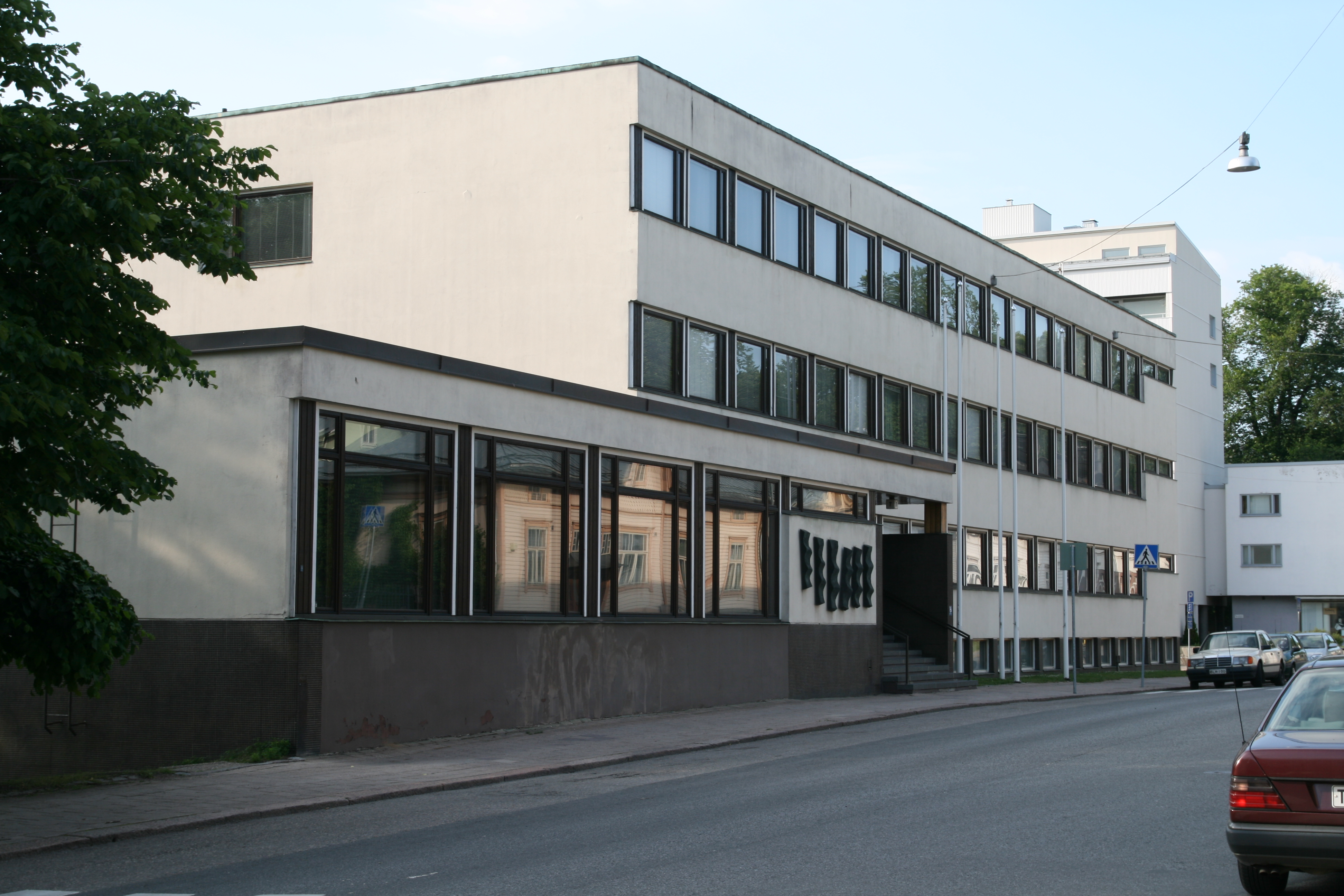 Åbo akademi's building Hanken, architect Woldemar Baeckman.